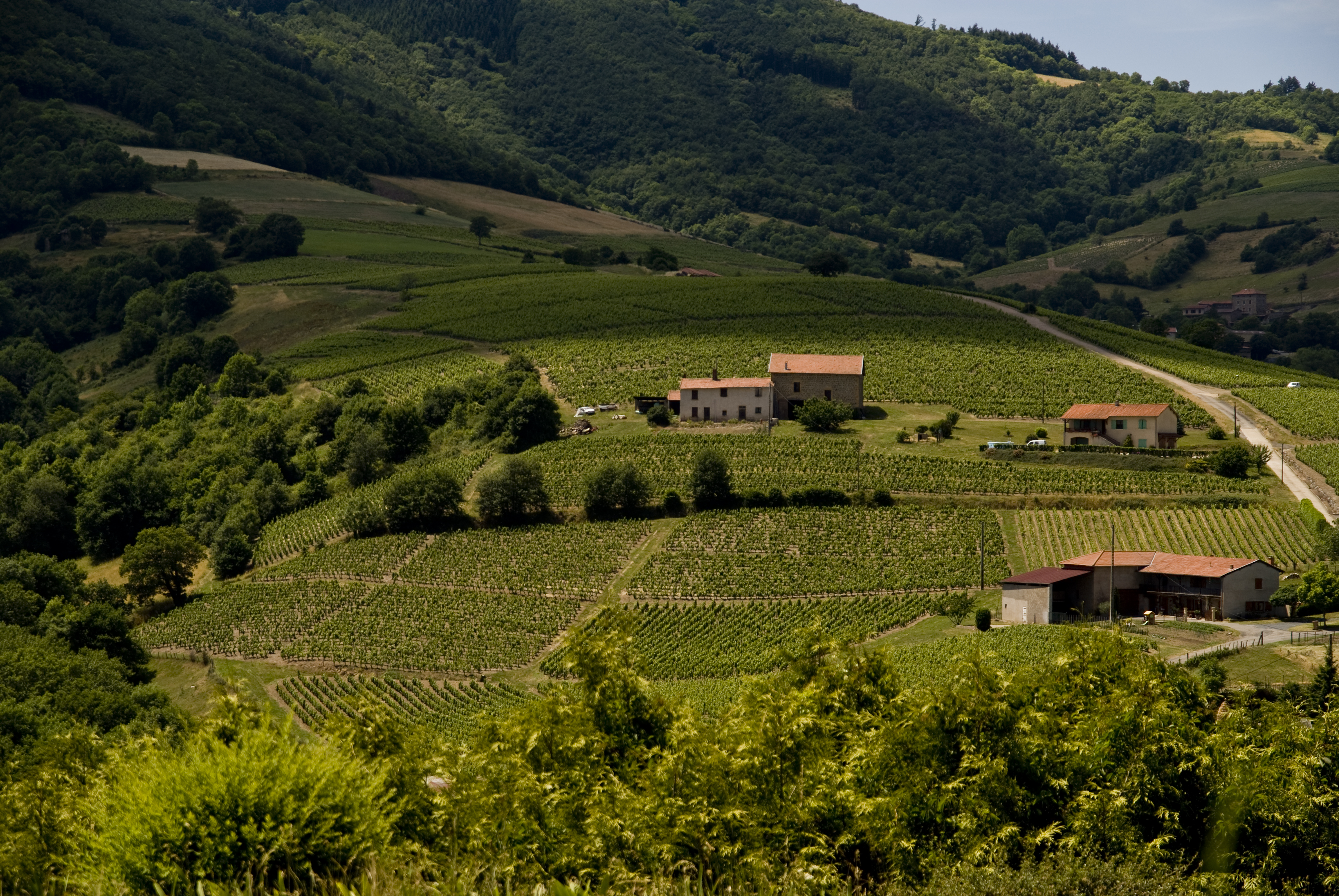 The French wine region of Beaujolais located south of Burgundy and north of the Rhone Valley.